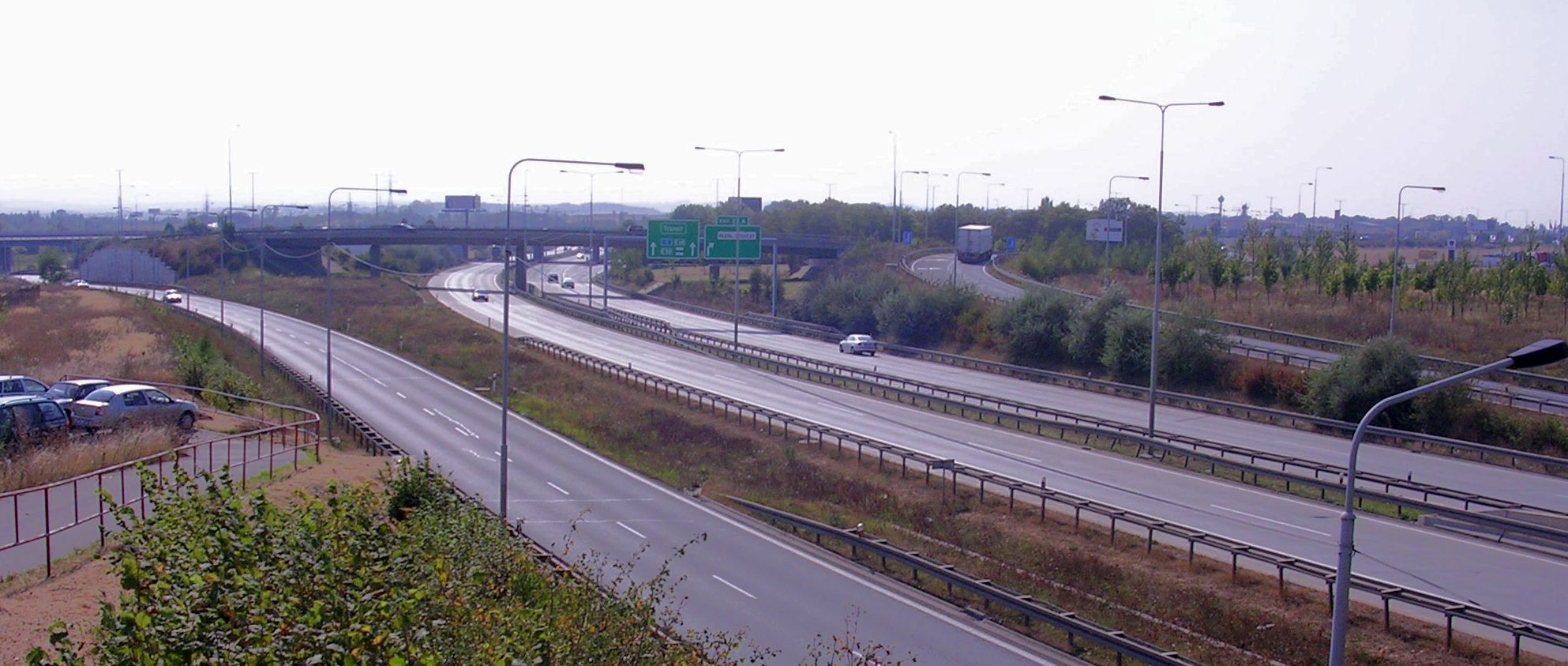 Třebonice, Prague, the Czech Republic. Prague beltway R1 and highway D5 near Třebonice.